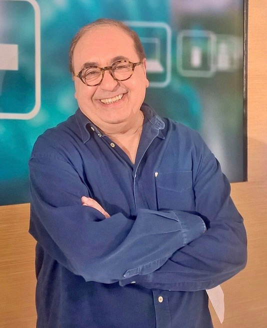 Photo Roland Portiche